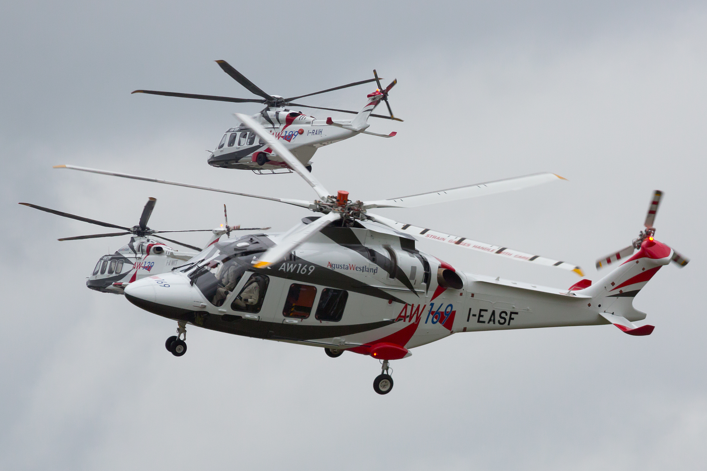 Agusta Westland AW 169 in flight at the 2012 Farnborough Air Show